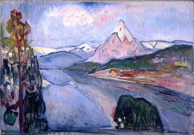 Draft to Stage Background for Ibsen's Ghosts (Act III, last scene) by E. Munch